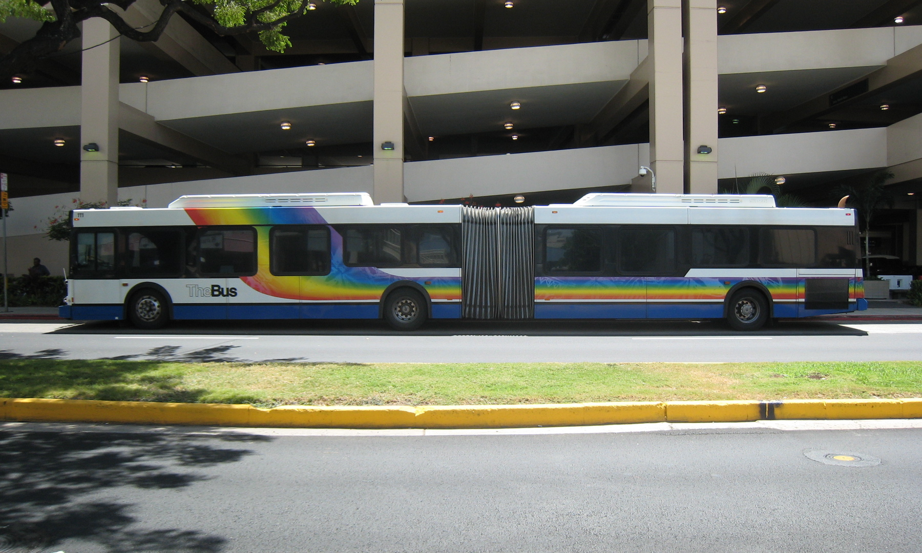 Photo of a TheBus New Flyer D60LF at Ala Moana Center in Honolulu, Hawaii, United States. This bus has since been repainted in the yellow and brown livery.